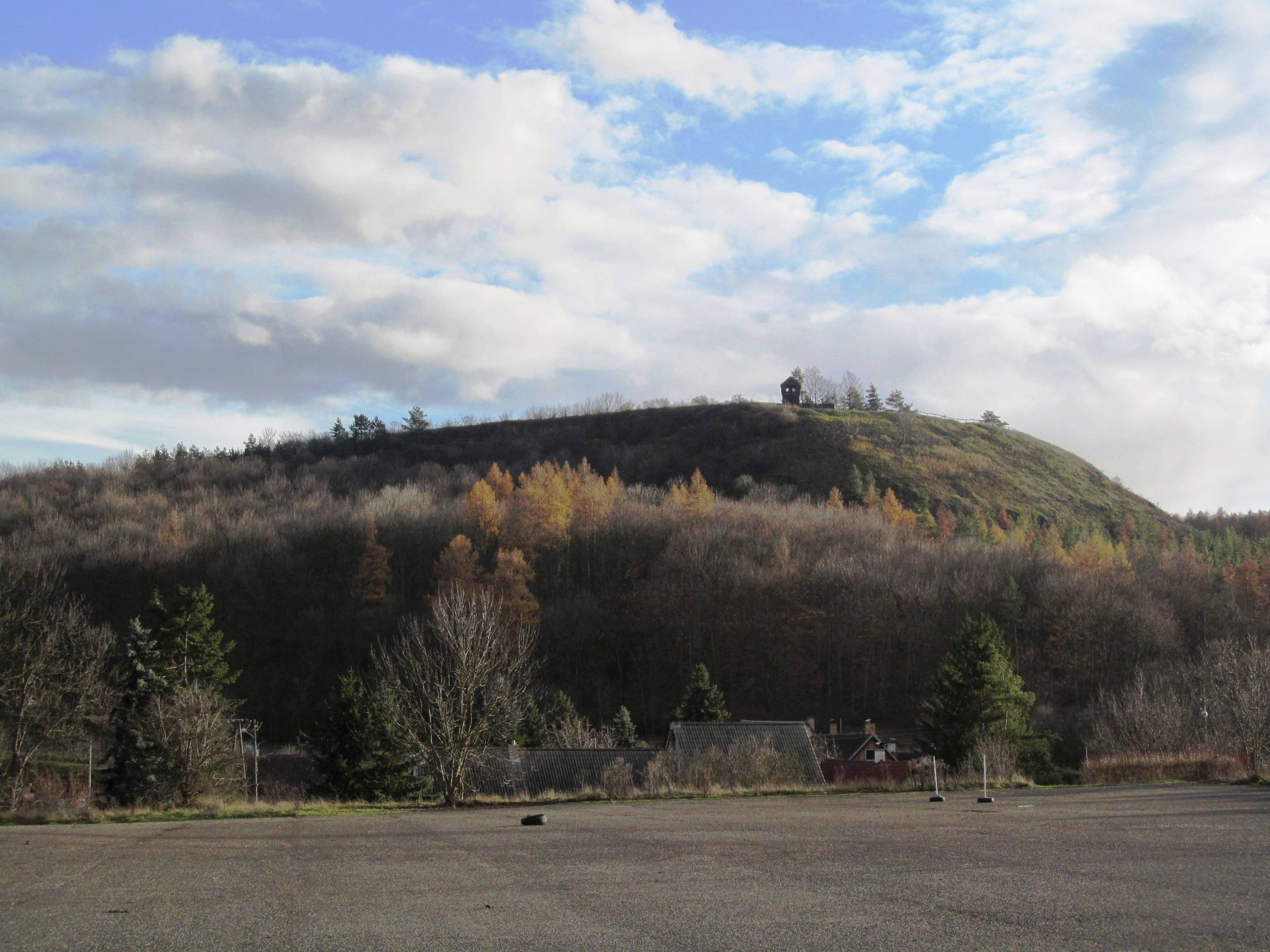 Rubín hill from Dolánky